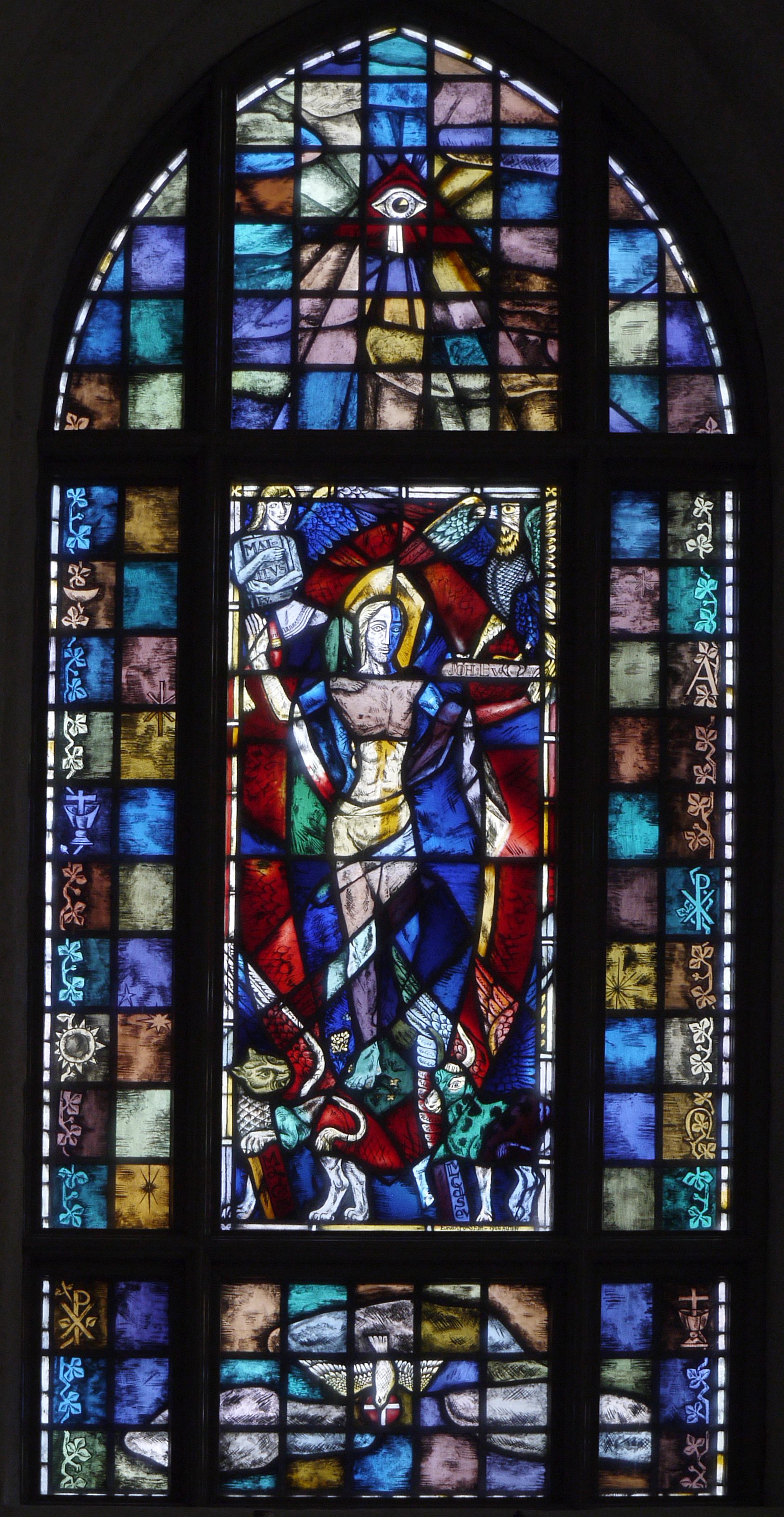 Askeby church, Diocese of Linköping, Sweden. Church window.